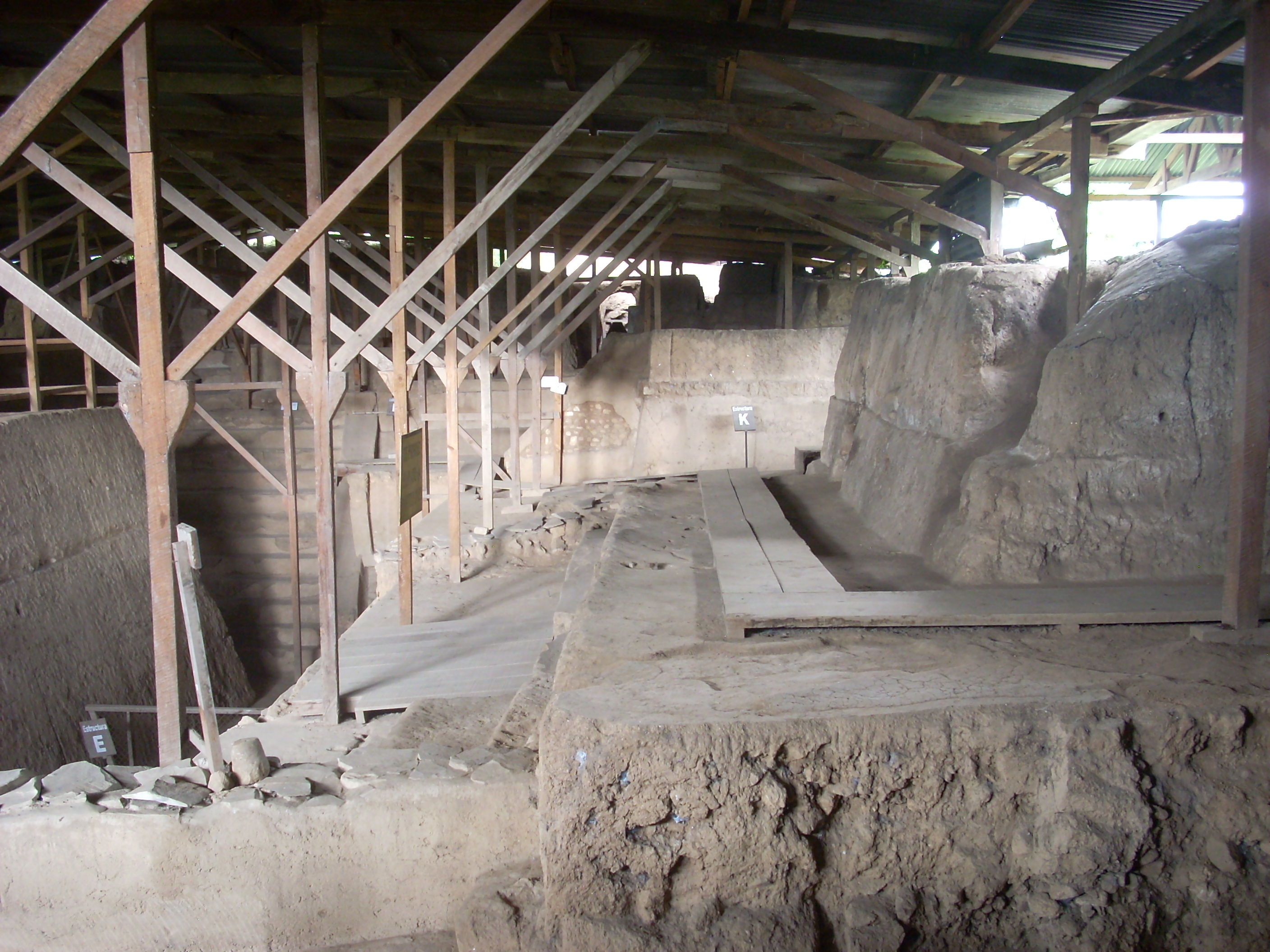 The excavated acropolis at Kaminaljuyu, Guatemala.